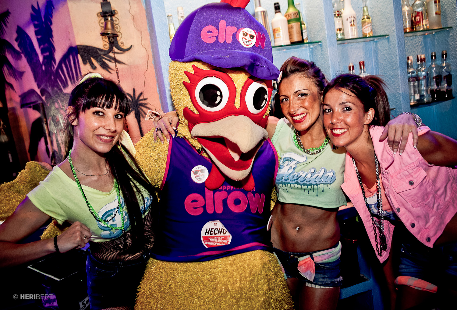 Fiesta de elrow en el club Florida 135, The Singer Morning Festival 29 de junio de 2013. En imagen, empleadas del club Florida 135 junto a Rowgelia, la "mascota oficial" de elrow